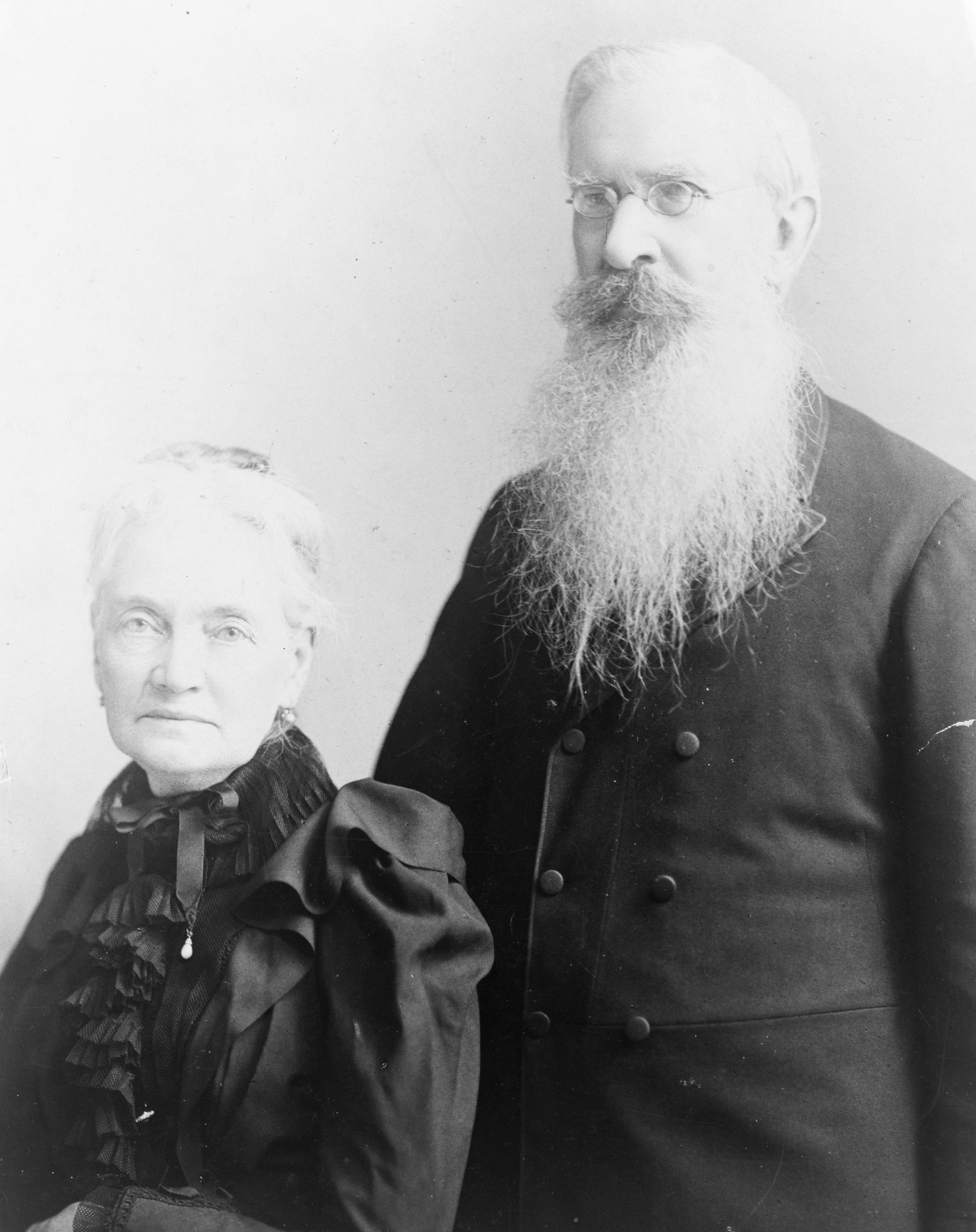 Title: Mr. and Mrs. Gardiner Greene Hubbard, half-length portrait, facing left Abstract/medium: 1 photographic print.